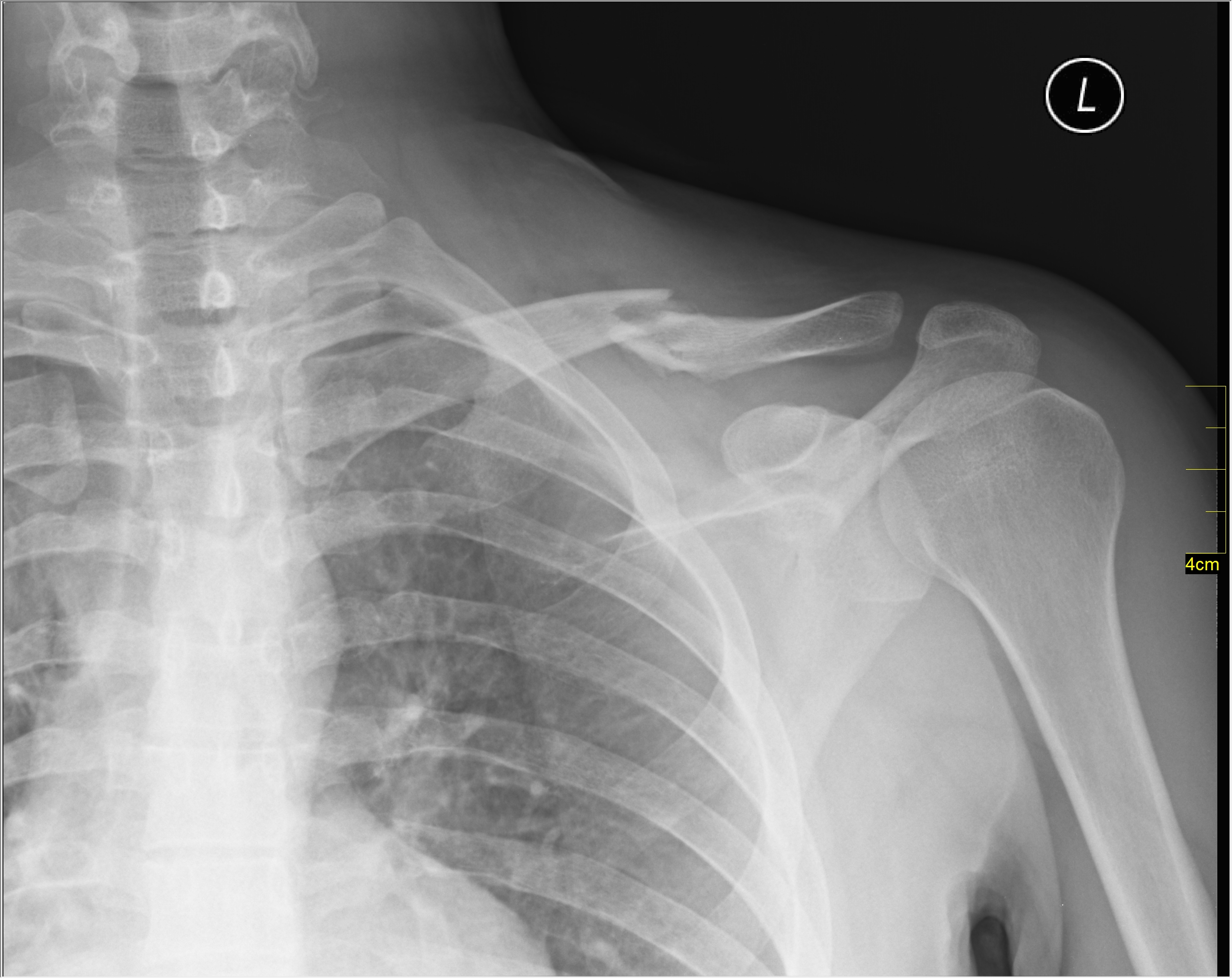 Medical X-rays. Image may not be to scale